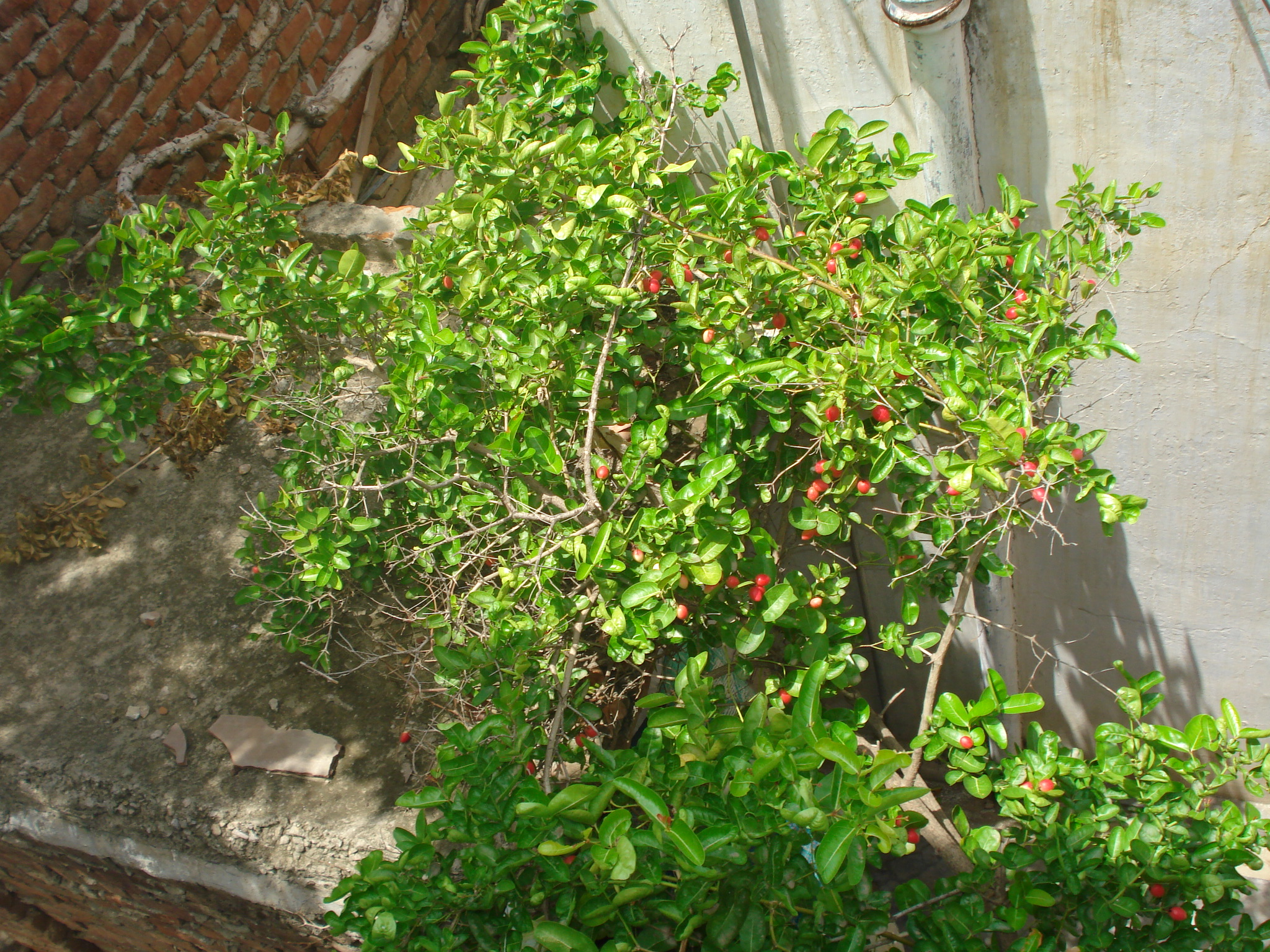 Karonda plant at Jaipur